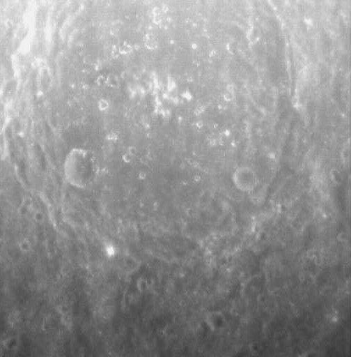 Dvorák crater on Mercury. MESSENGER Narrow Angle Camera. Brightness decreased and contrast increased from original due to possible overexposure. Emission Angle: 22.1 Incidence Angle: 16.5 Latitude: -9.7 Longitude: 348.3 Phase Angle: 38.5